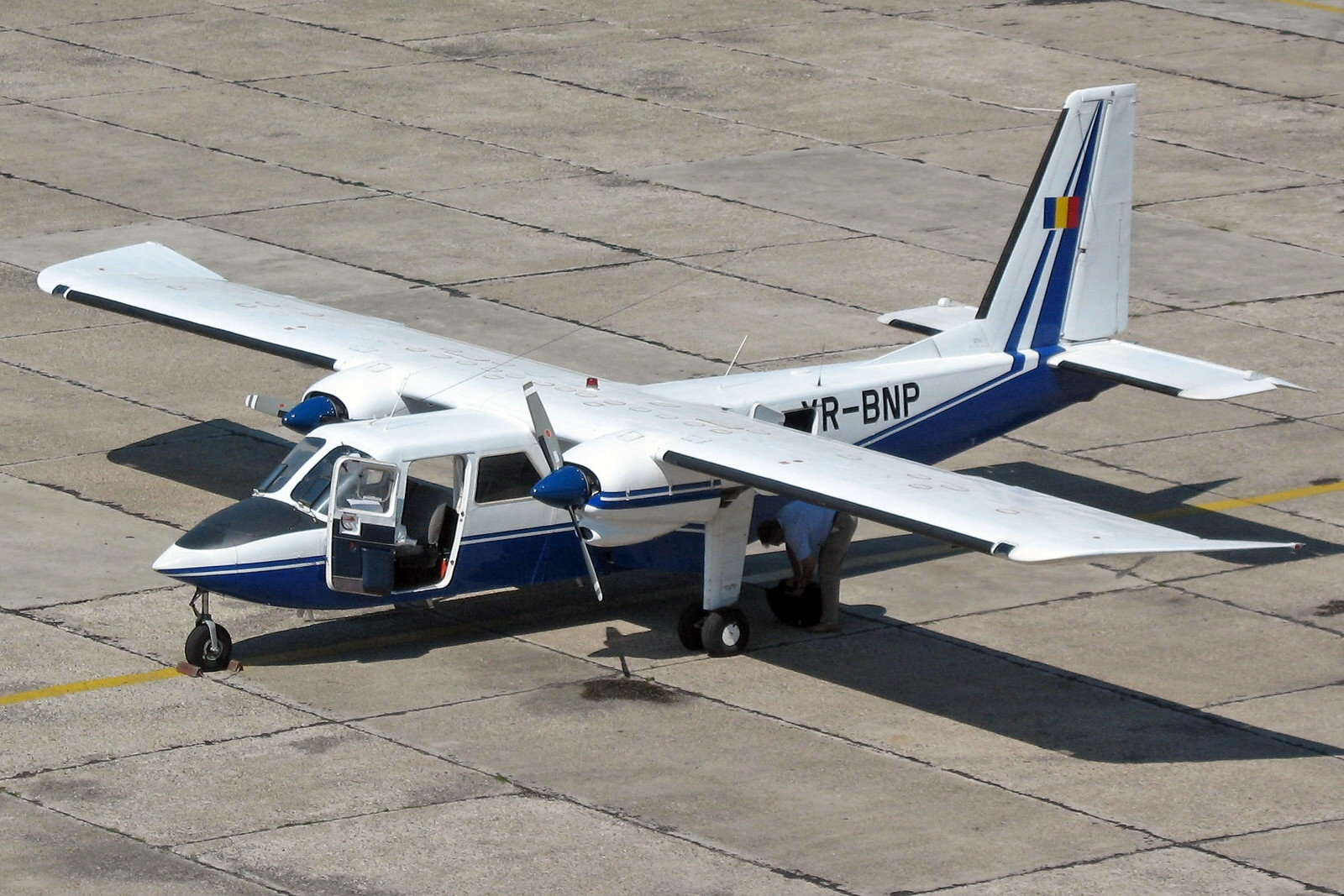 Britten-Norman BN-2A-27 Islander YR-BNP involved in plane crash, spotted at "George Enescu" International Airport Bacău, July 30, 2008